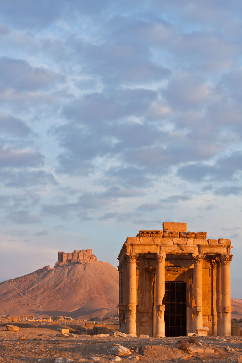 Palmyra (Syria). Temple of Baal-Shamin in Palmyra in foreground with Qasr Ibn Maʿan in the background